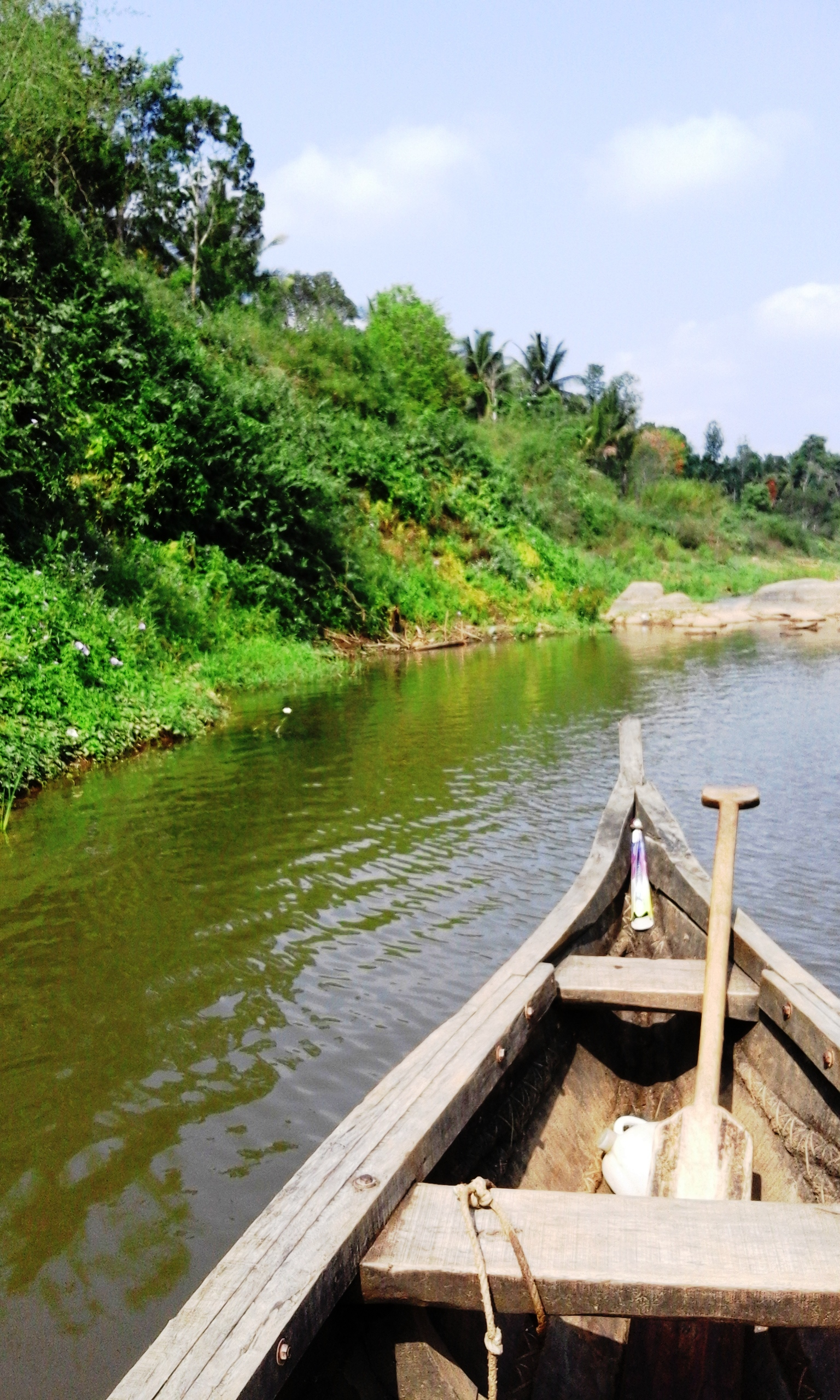 Pulpally area, Wayanad district, Kerala, India.